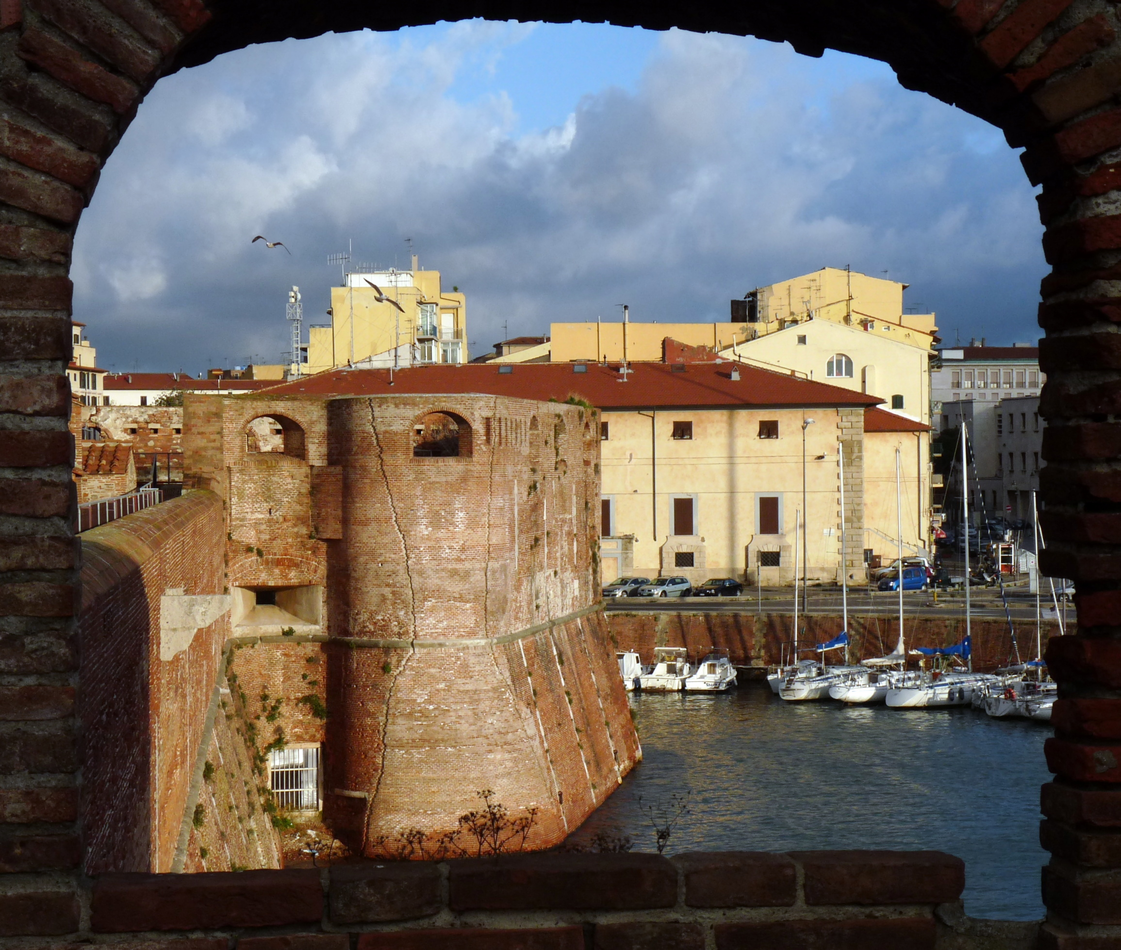 Fortezza Vecchia, Livorno, Italy - view